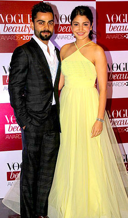 Anushka Sharma and Virat Kohli